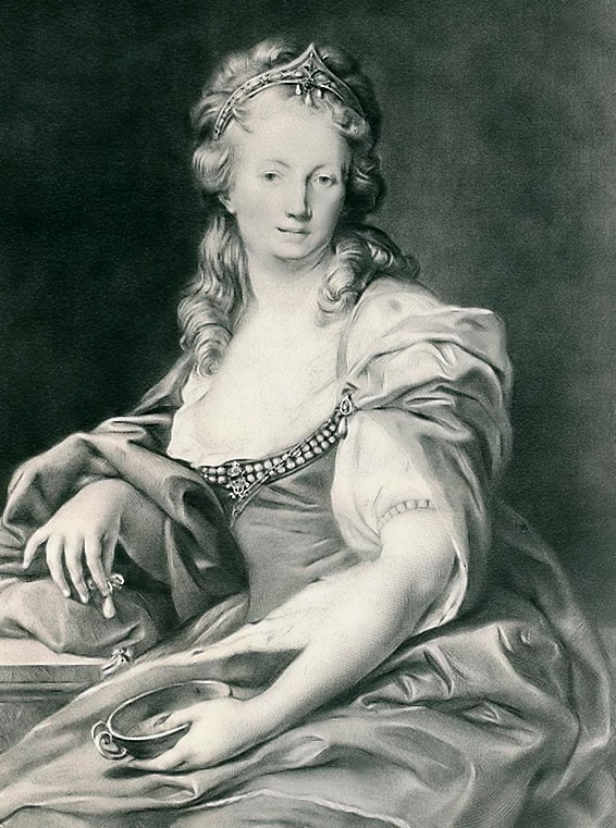 Portrait of Józefina Amalia Potocka (1752-1798)